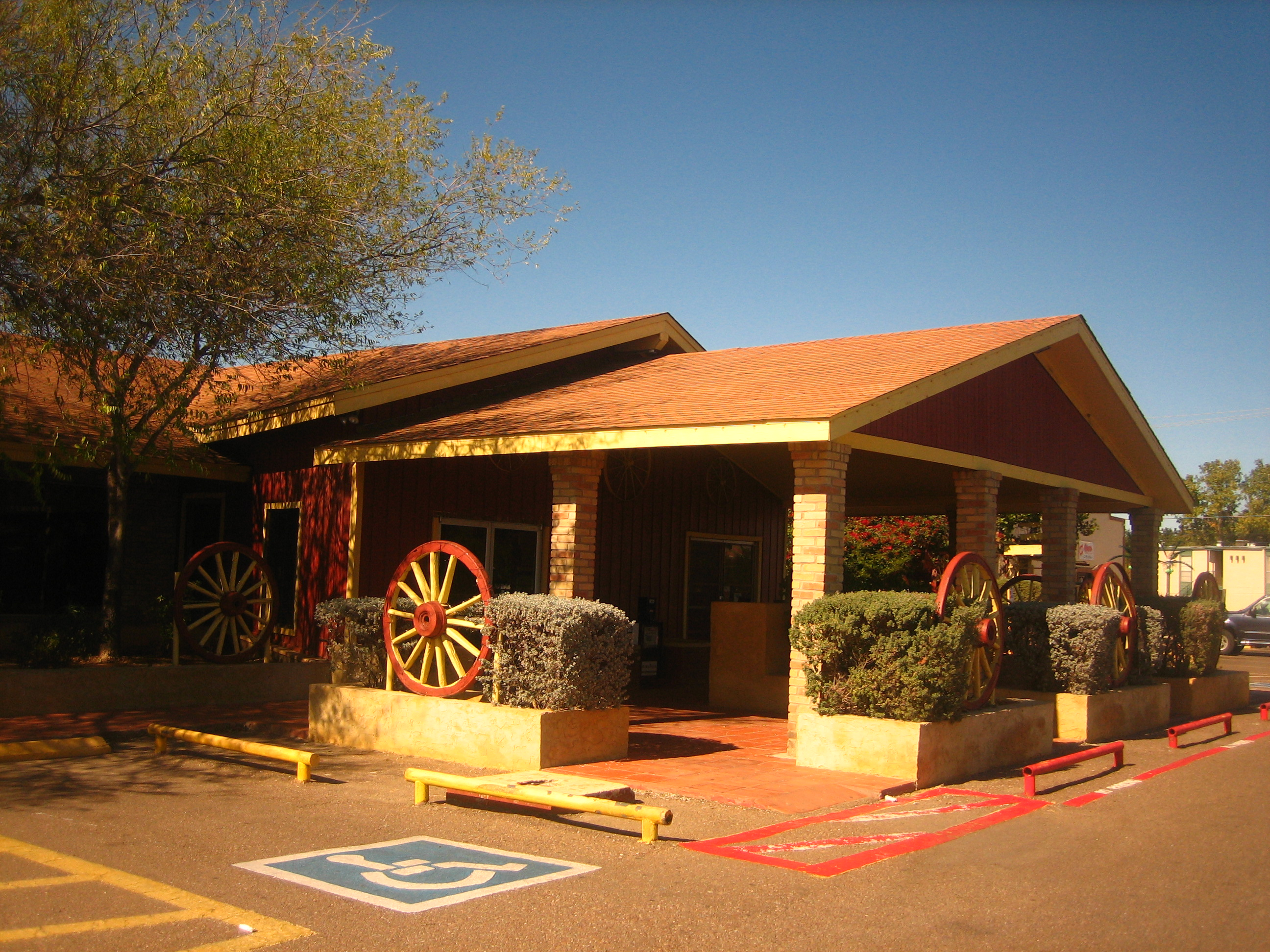 Picture of long-time BBQ restaurant in Laredo